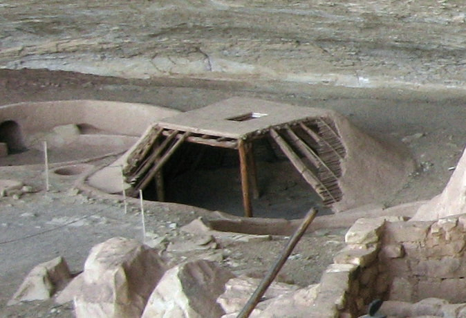 First of two images taken by wvbailey at at the Step House ruins, Mesa Verde National Park. Both were shot from long distances, this one from slightly above. The pithouse a precursor to the kiva.